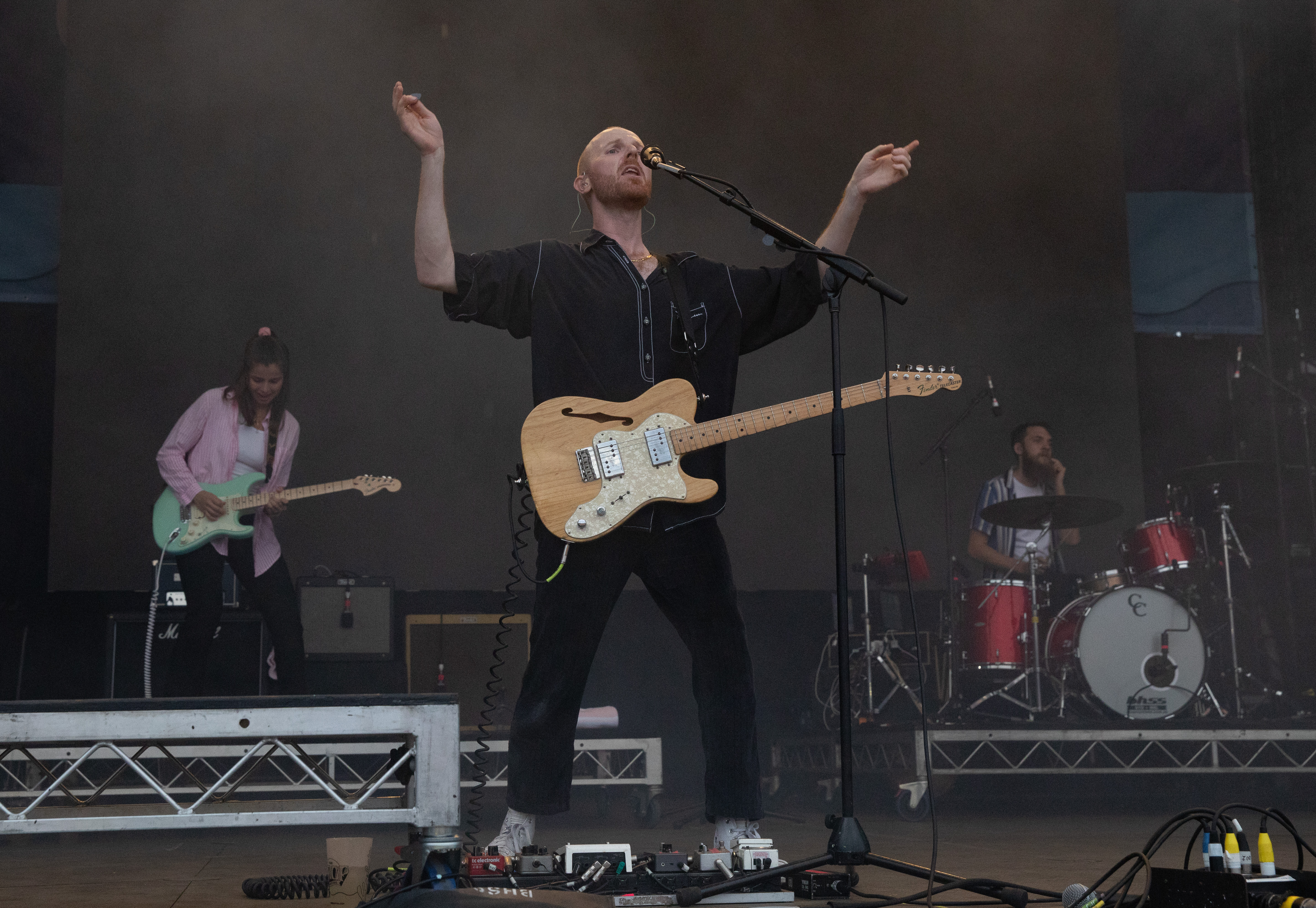 The Jungle Giants performing at The Drop Festival in Manly on 23rd March 2019